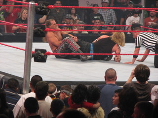 Shawn Michaels applying the "Figure Four Lock" on Jeff Hardy